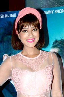 Madalsa Sharma grace the first look launch of Dil Salaa Sanki